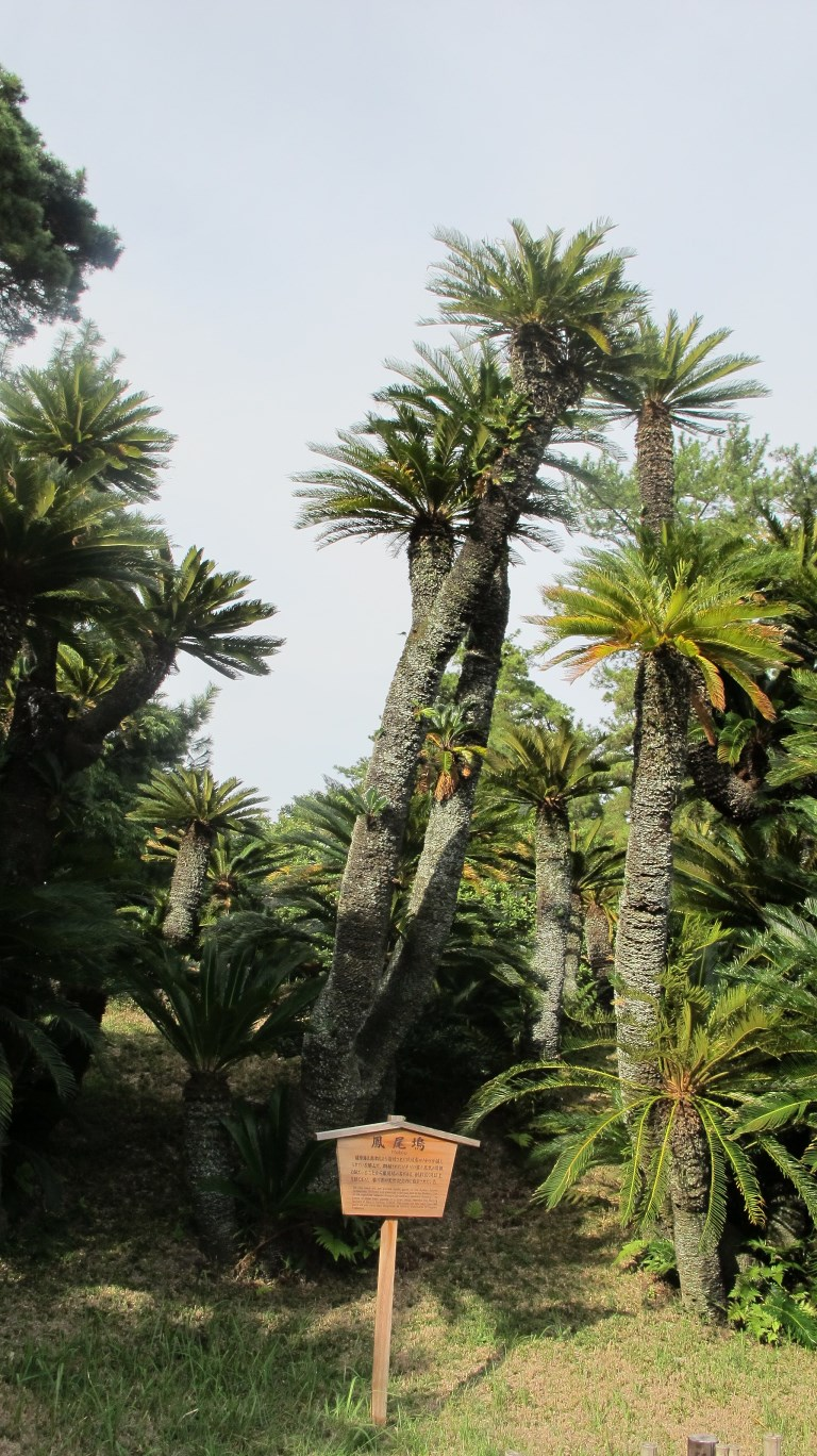 slope with "Sotetsu" at Ritsurin-Garden